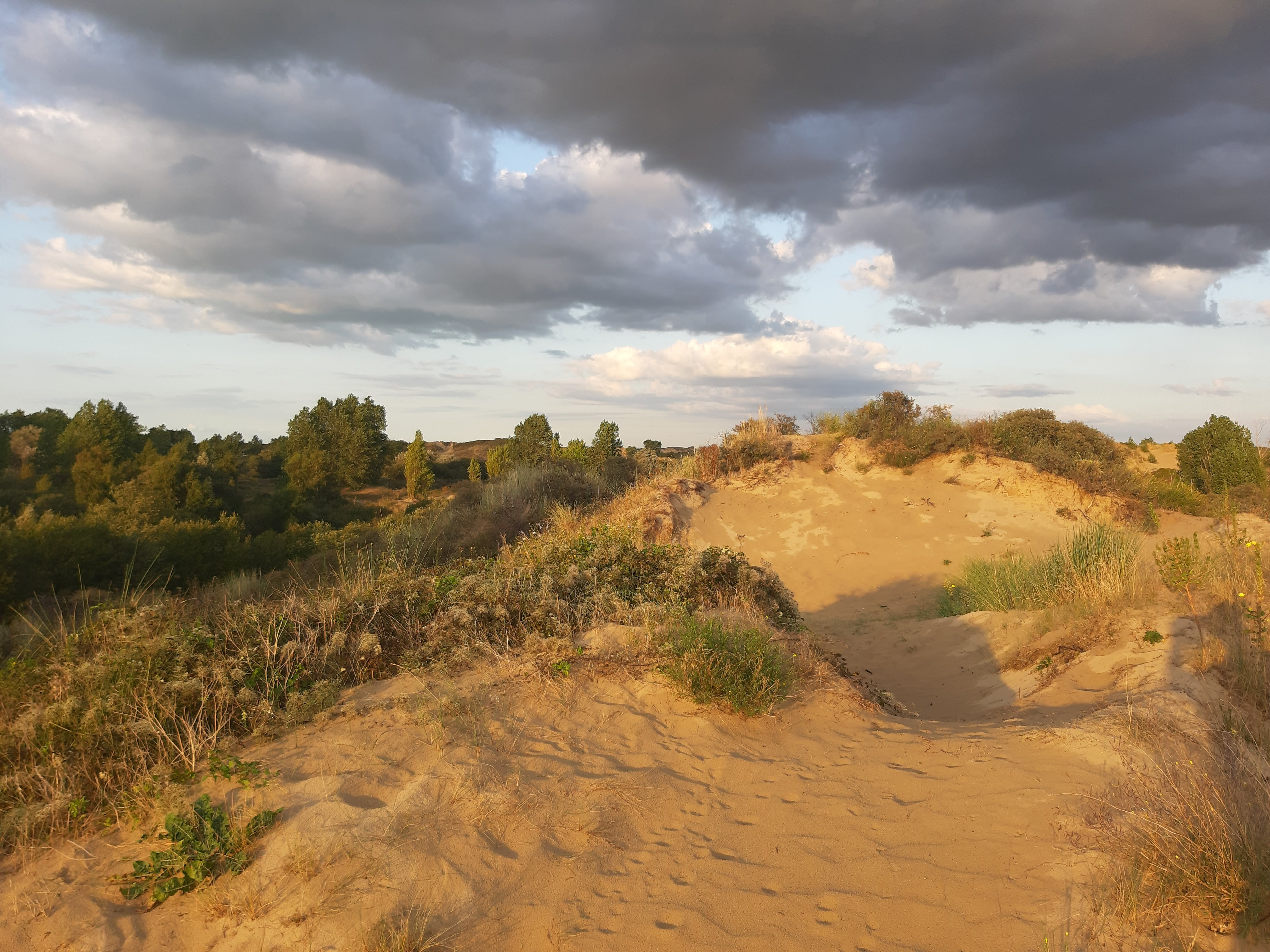 Dune du Perroquet